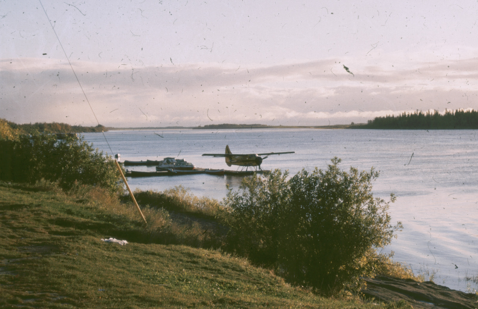 Floatplane in Moosonee, Ontario (Canada)